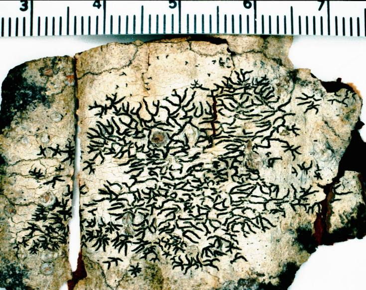 Graphis scripta (L.) Ach., 1809 (photograph of a herbarium specimen) Growing on Paper Birch in open area at Iron Bridge at Carp Creek, off Hogsback Road, Cheboygan County, Michigan, USA; collected and identified by Richard E. Riefner (No. 81-356, 29 Jun 1981); specimen is now in the Lichen Herbarium of the New York Botanical Garden. (scale marks = millimeters)